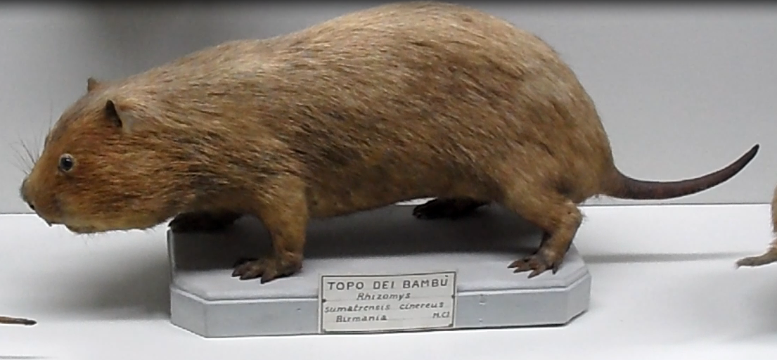 Large Bamboo Rat on display in the Natural History Museum of Genoa